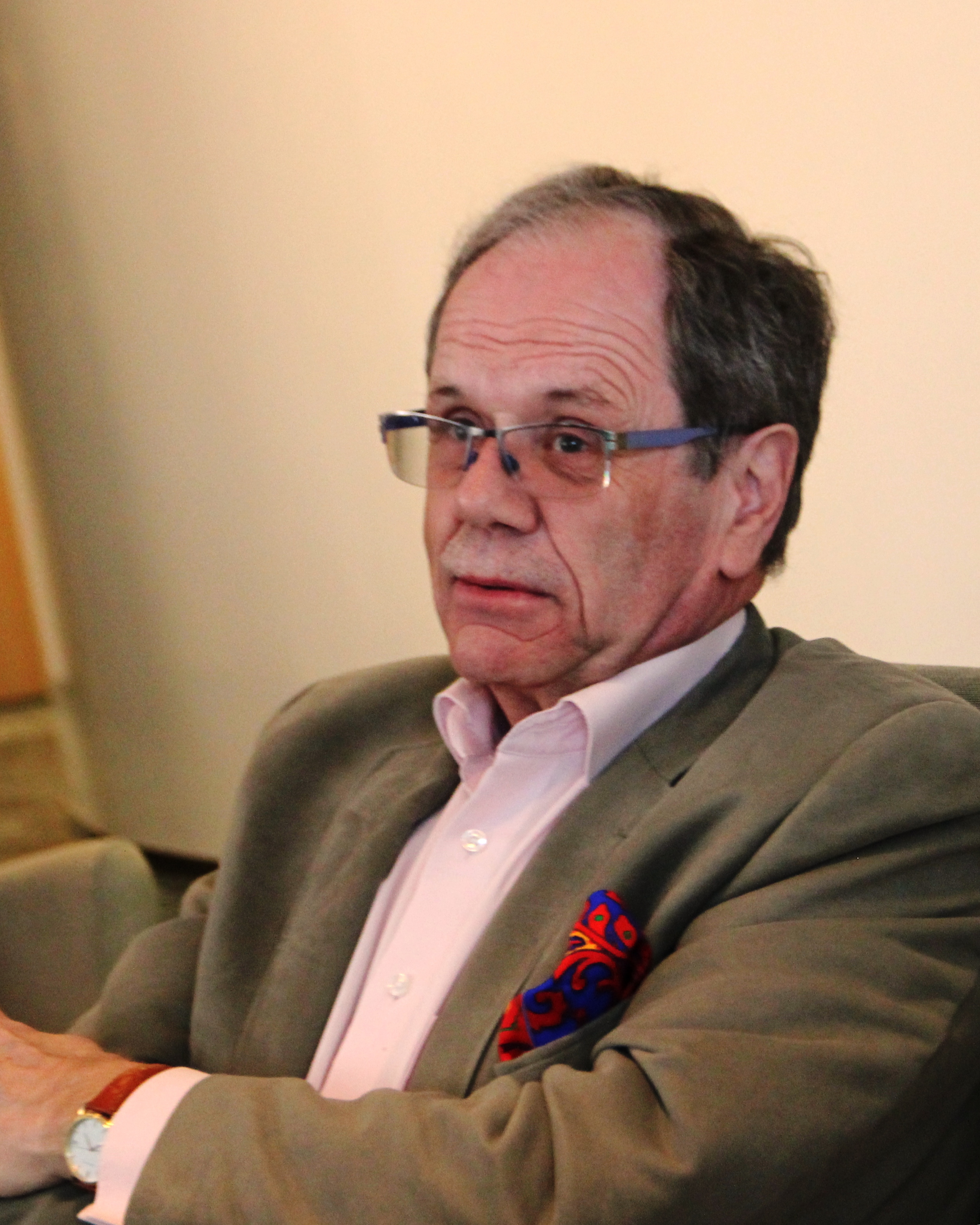 Finnish historian Seppo Zetterberg 2017